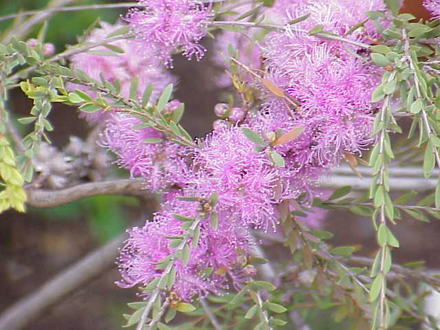 Species: Melaleuca thymifolia Family: Myrtaceae Image No. 4